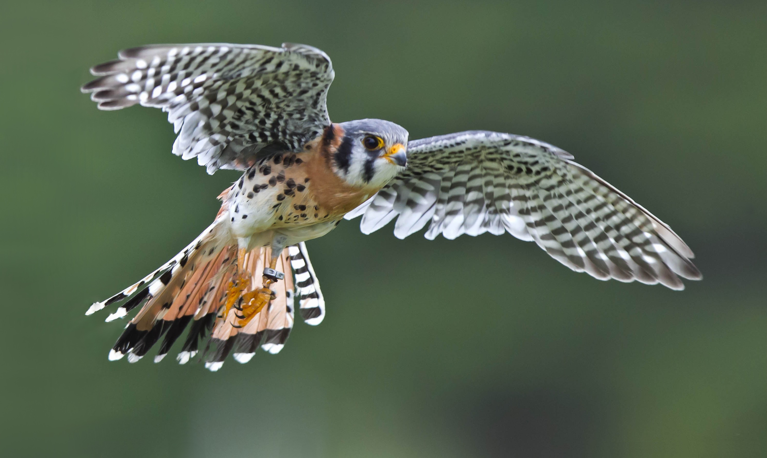 A male American Kestral at Canadian Raptor Conservancy, Canada.